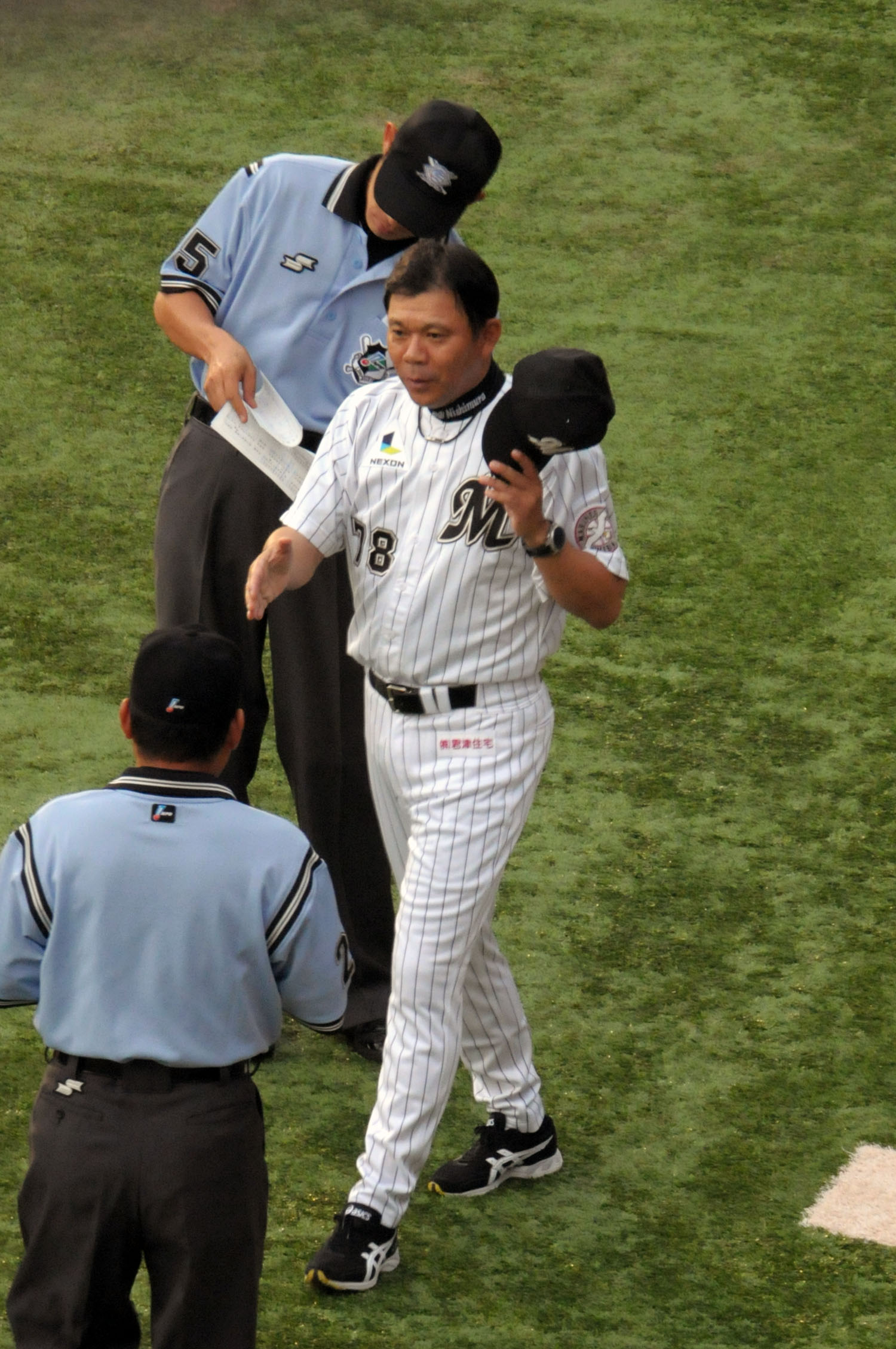 Norifumi Nishimura, manager of the Chiba Lotte Marines, at Chiba Marine Stadium